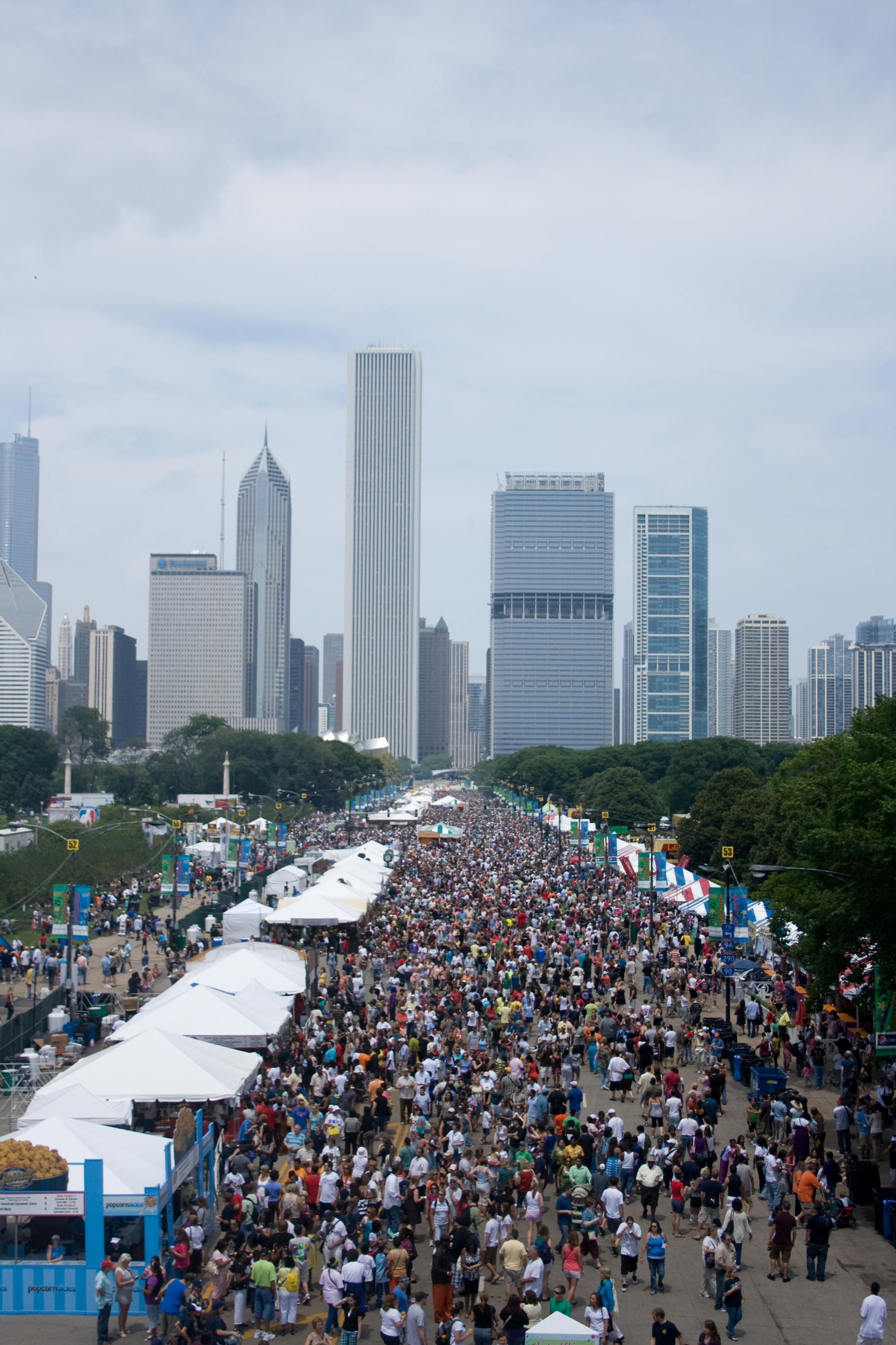 Overview of the Taste of Chicago looking North up Columbus Drive.